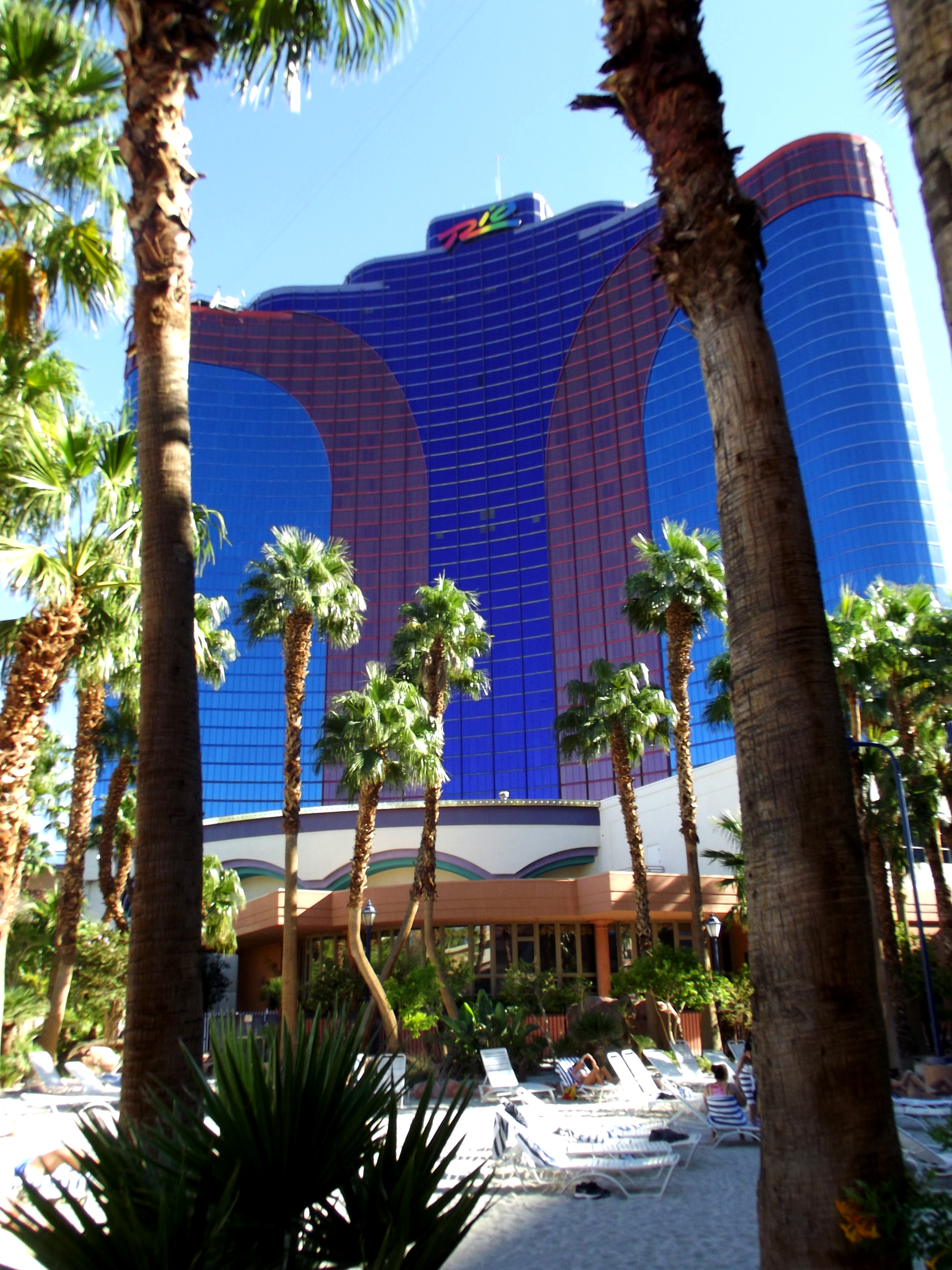 Rio All Suite Hotel and Casino